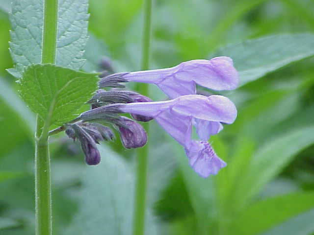 Species: Nepeta sibirica Family: Lamiaceae Image No. 6